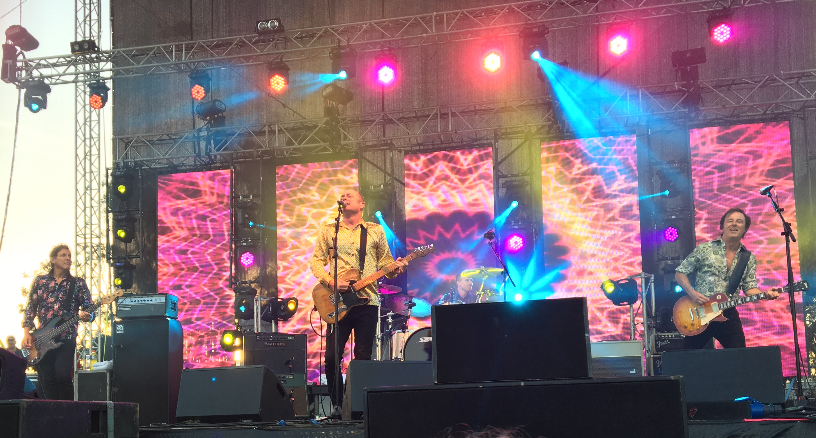 Richard Grossman, David Faulkner and Brad Shepherd at Hastings Foreshore 2019